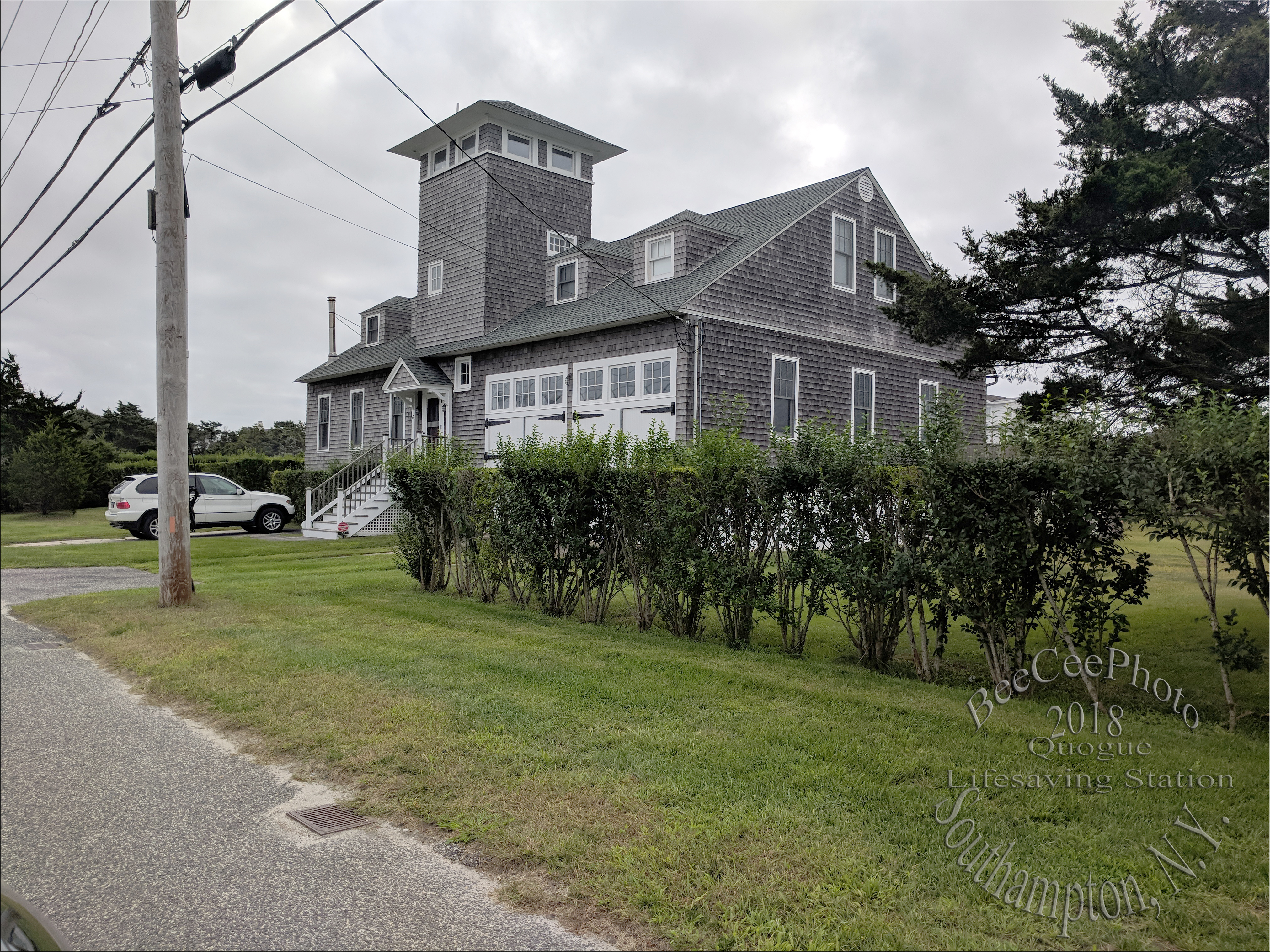 Used by the Coast Guard early 19th century